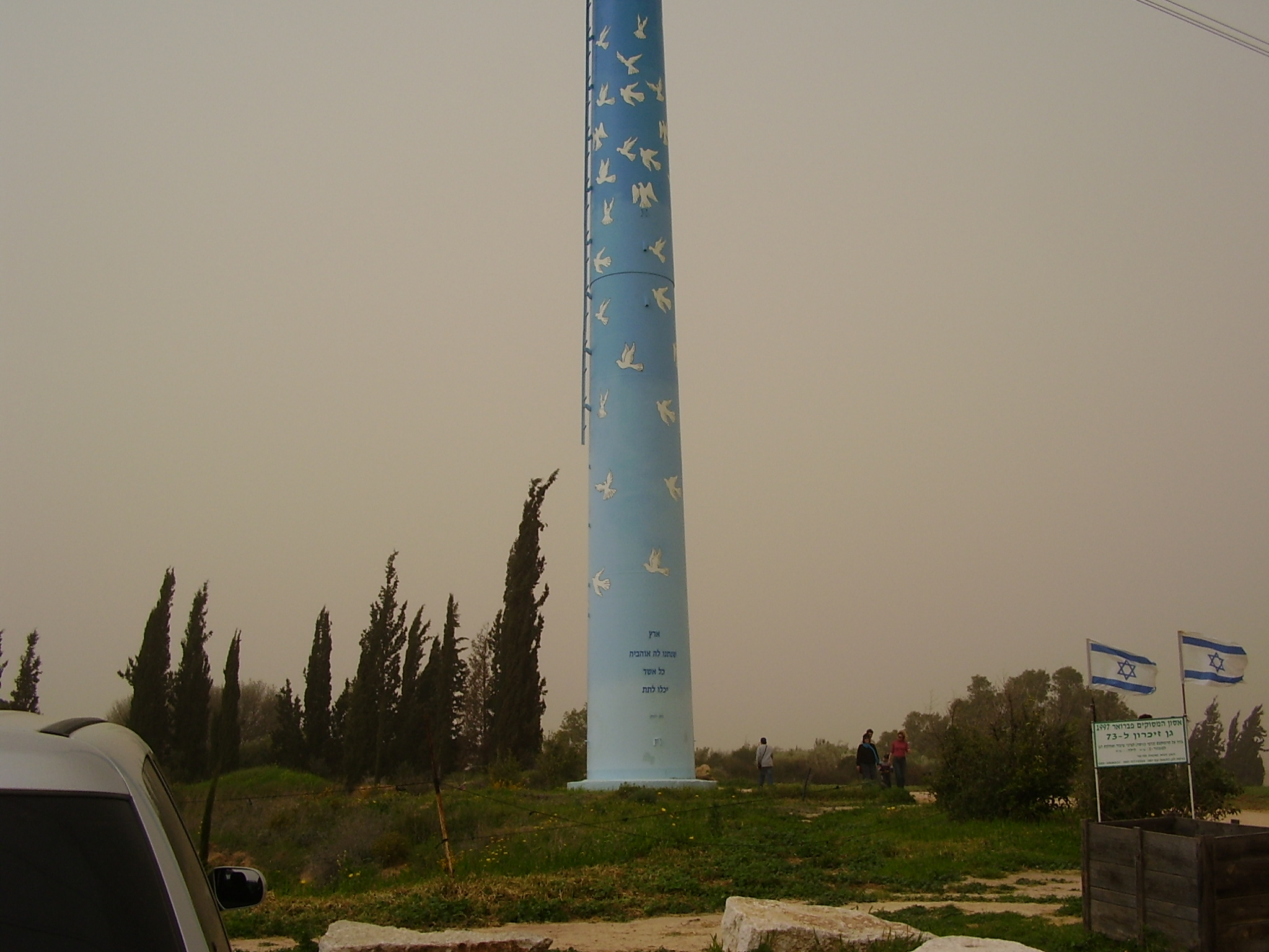 Painted electricity pylon, memorial on Tom and Tomer hill, Israel